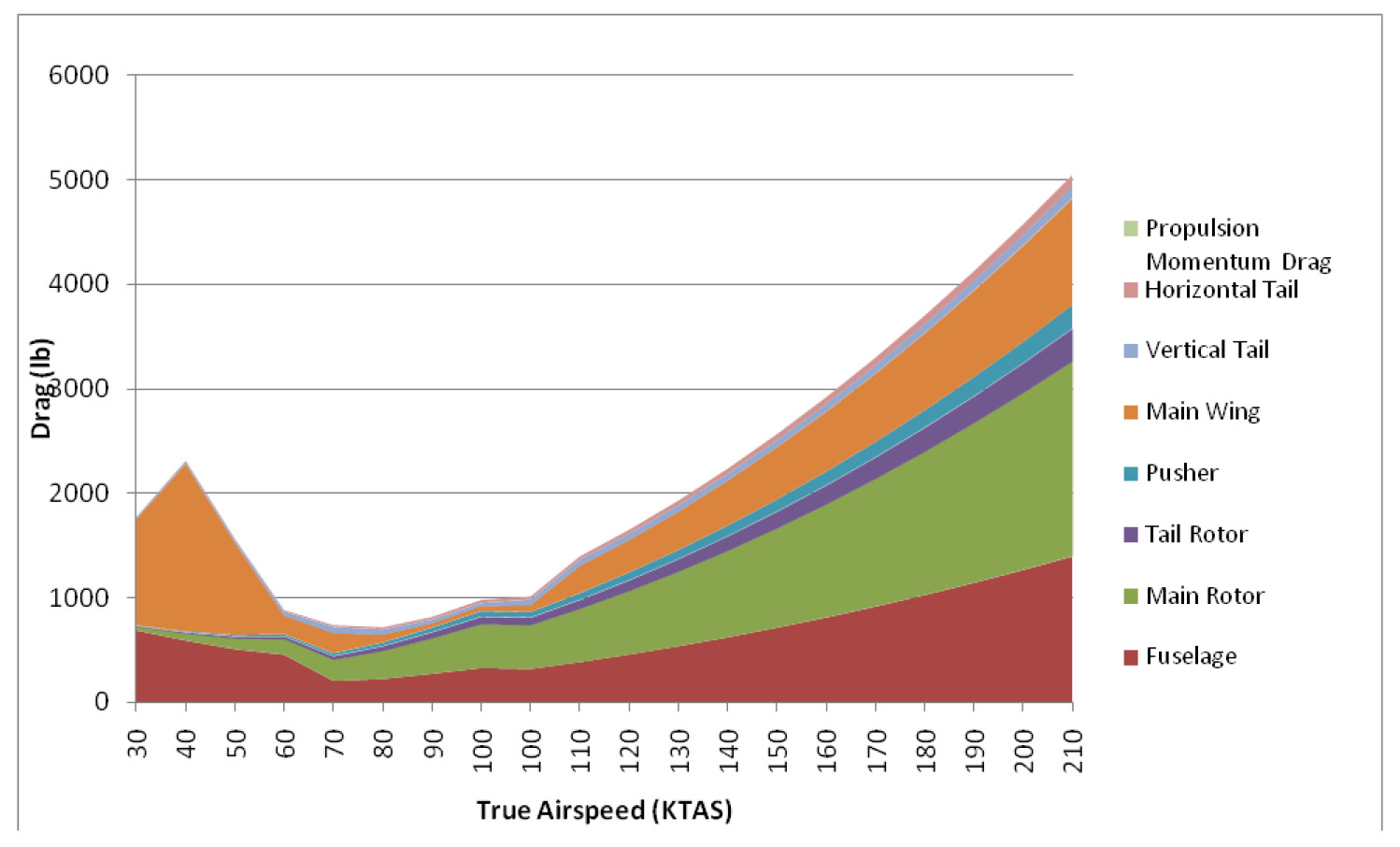 Drag curve as a function of airspeed. Types of drag are specified. Calculated using computer simulations. Mirror sources